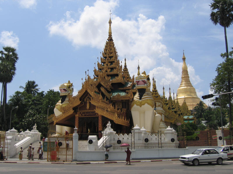 Southern Gate of Shwe Dagon Pagoda.